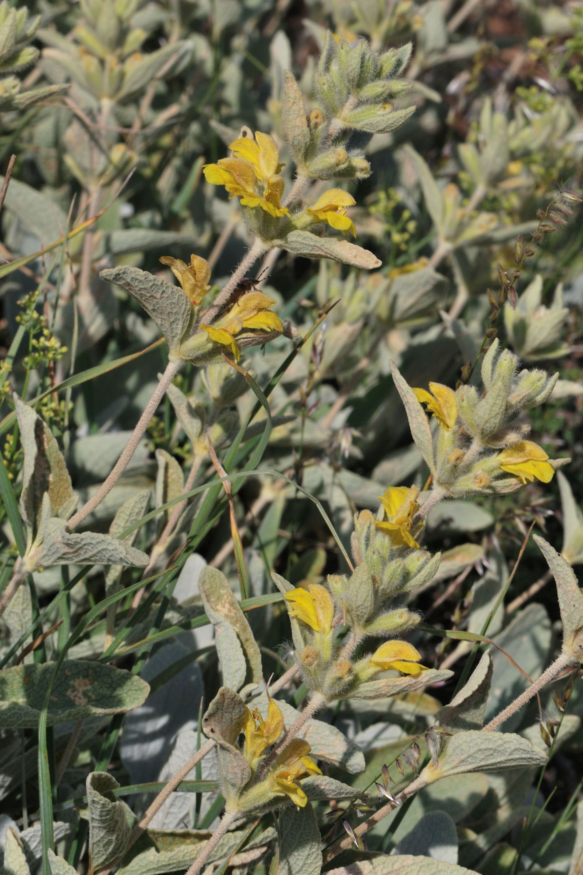 Phlomis brevilabris Ehrenb. ex Boiss., Mount Hermon, Israel/Syria, July 9, 2011.